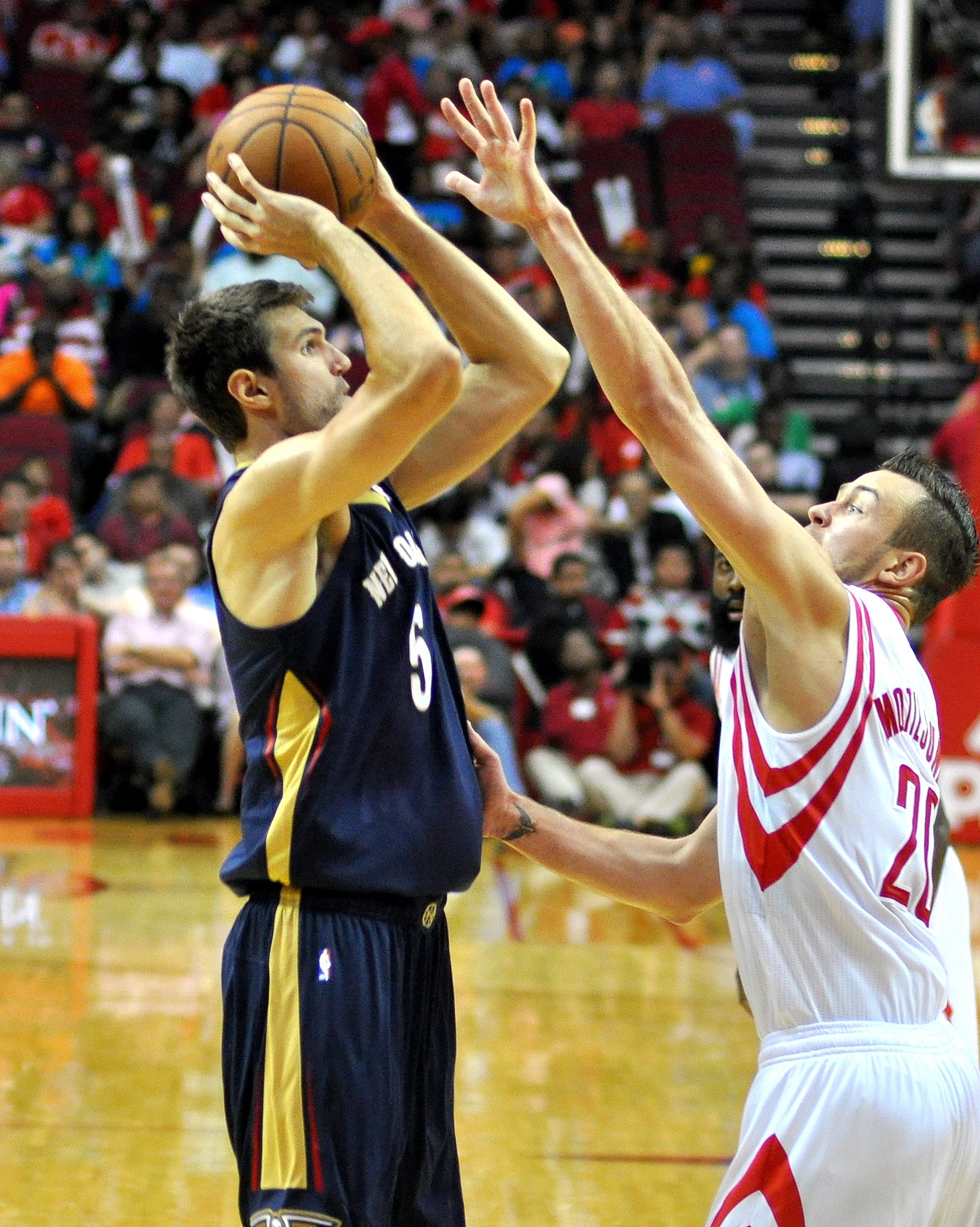 Jeff Withey of the New Orleans Pelicans looks for a shot as Donatas Motiejunas of the Houston Rockets defends during an NBA preseason basketball game, October 5, 2013, at the Toyota Center in Houston, Texas.